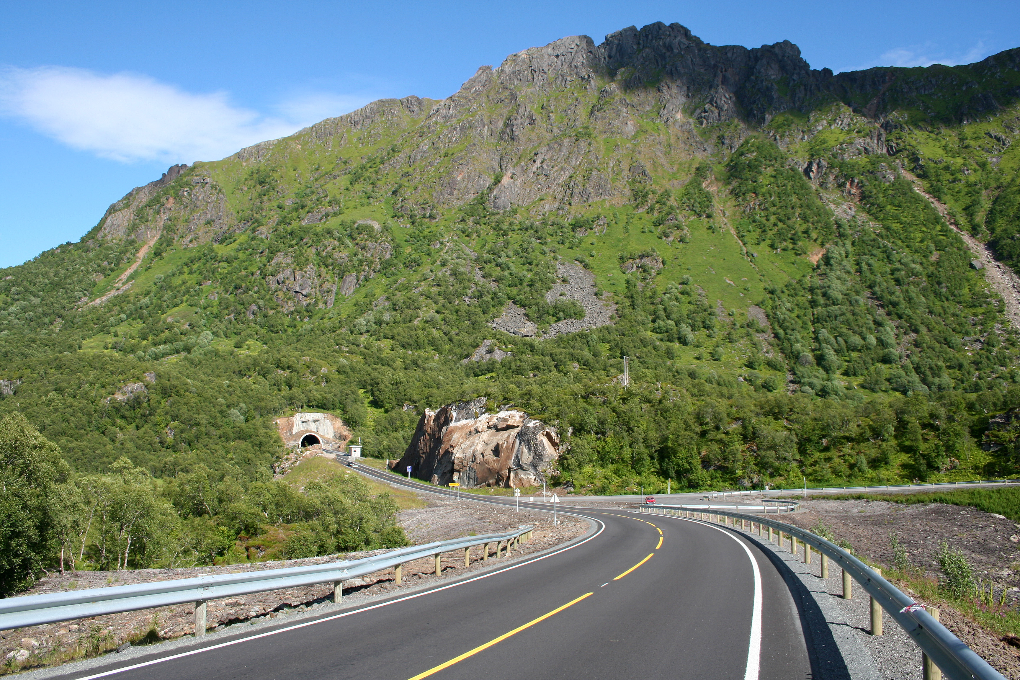 Towards the west portal of Raftsund Tunnel in Hadsel, Norway. The photo was taken from a point just east of Raftsund Bridge. The road from the west (behind the photographer) to the road junction was opened on 6 November 1998. The road onwards including the tunnel was opened on 1 December 2007.